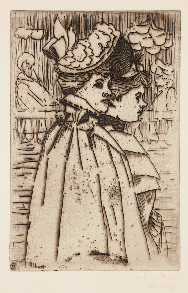 Deux jeunes femmes en chapeau, etching by Adolphe Albert. Dim. : 13,7 x 21,7 cm.